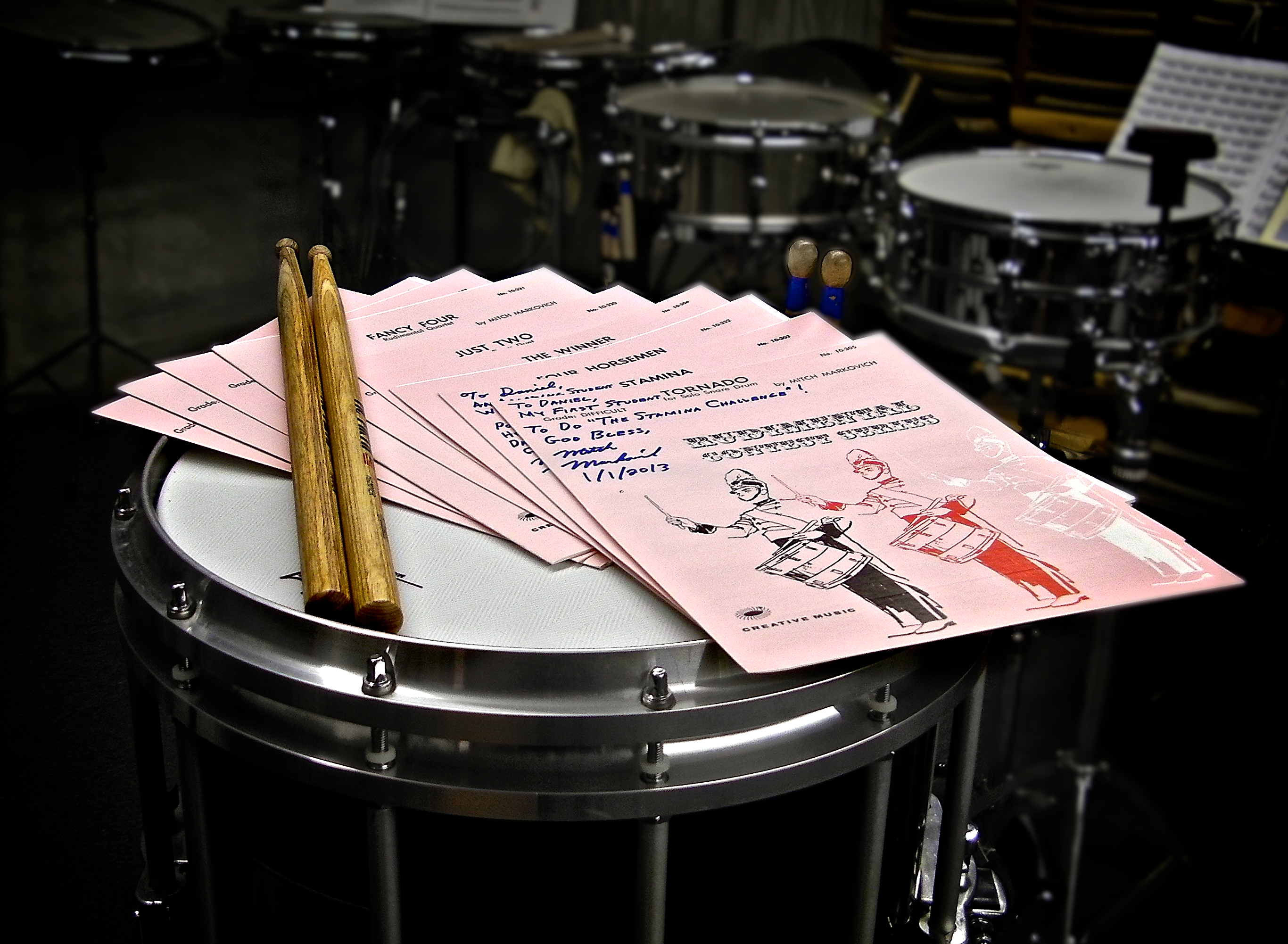 This is a portrait of the sheet music comprising the Rudimental Contest Series ("Stamina", "Tornado", "Four Horsemen", etc) by Mitch Markovich. The music is placed atop a marching snare drum, with a concert percussion ensemble instrument set in the background.